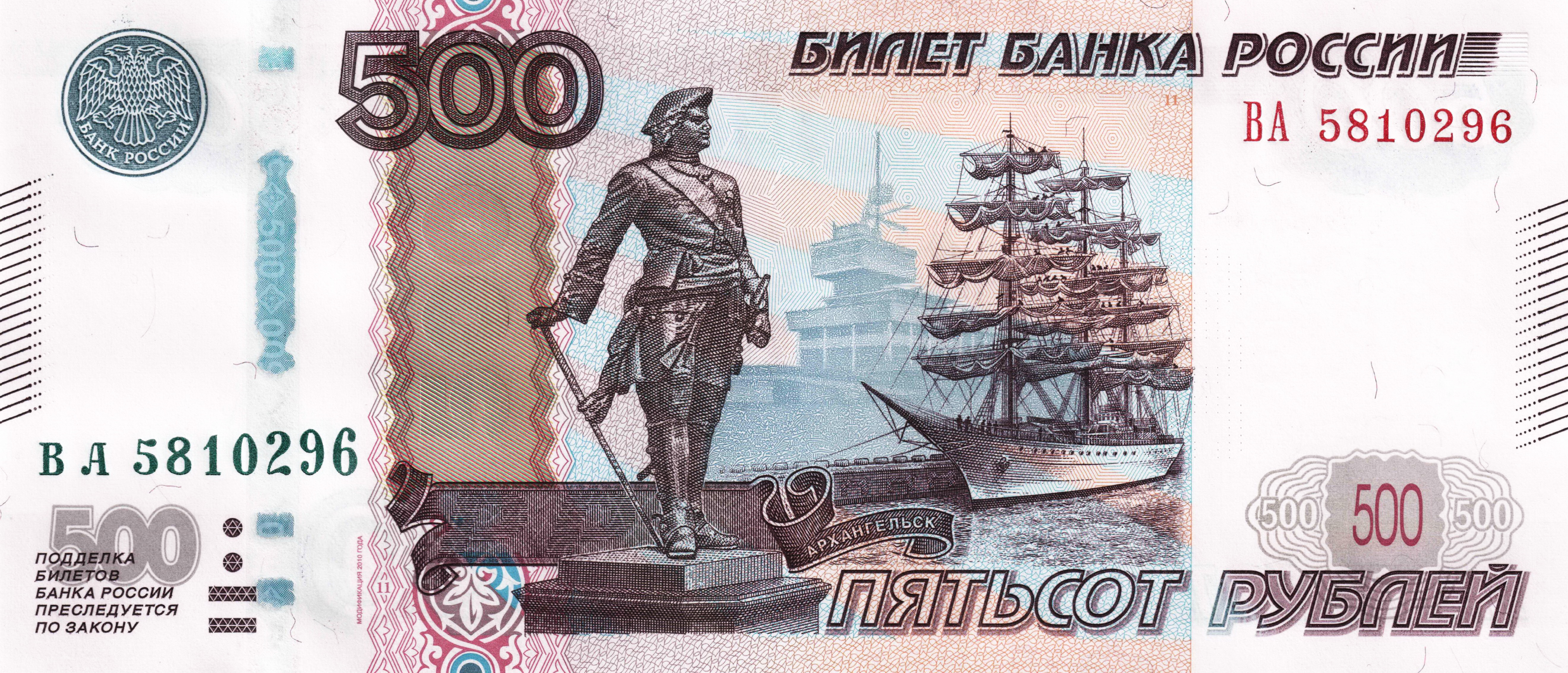 Russian banknote. 500 rubles. Version of 2010 year. Front